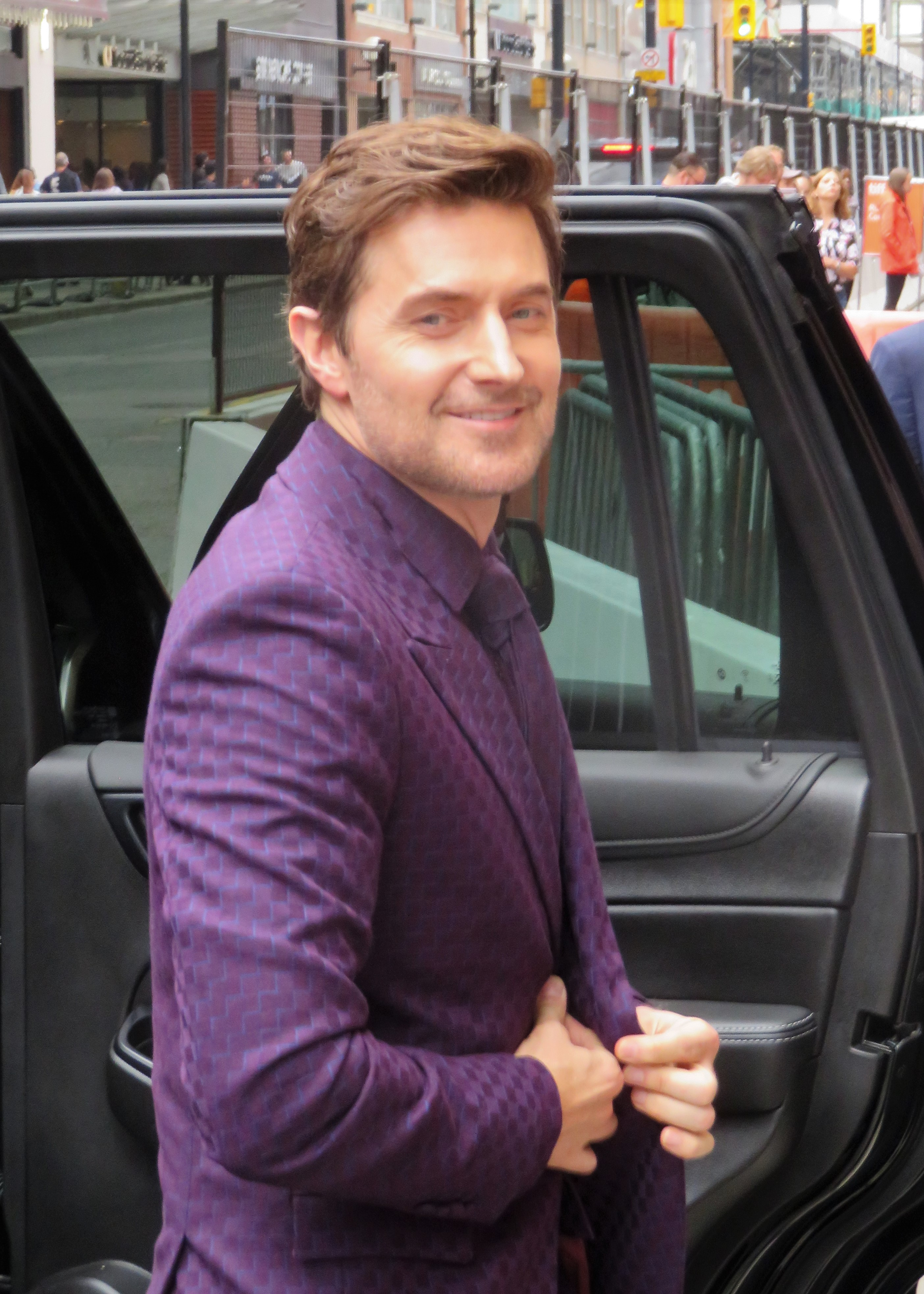 Richard Armitage at the premiere of My Zoe 2019 Toronto Film Festival